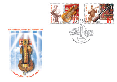 Joint issue of Belarus and Azerbaijan. Musical instruments.